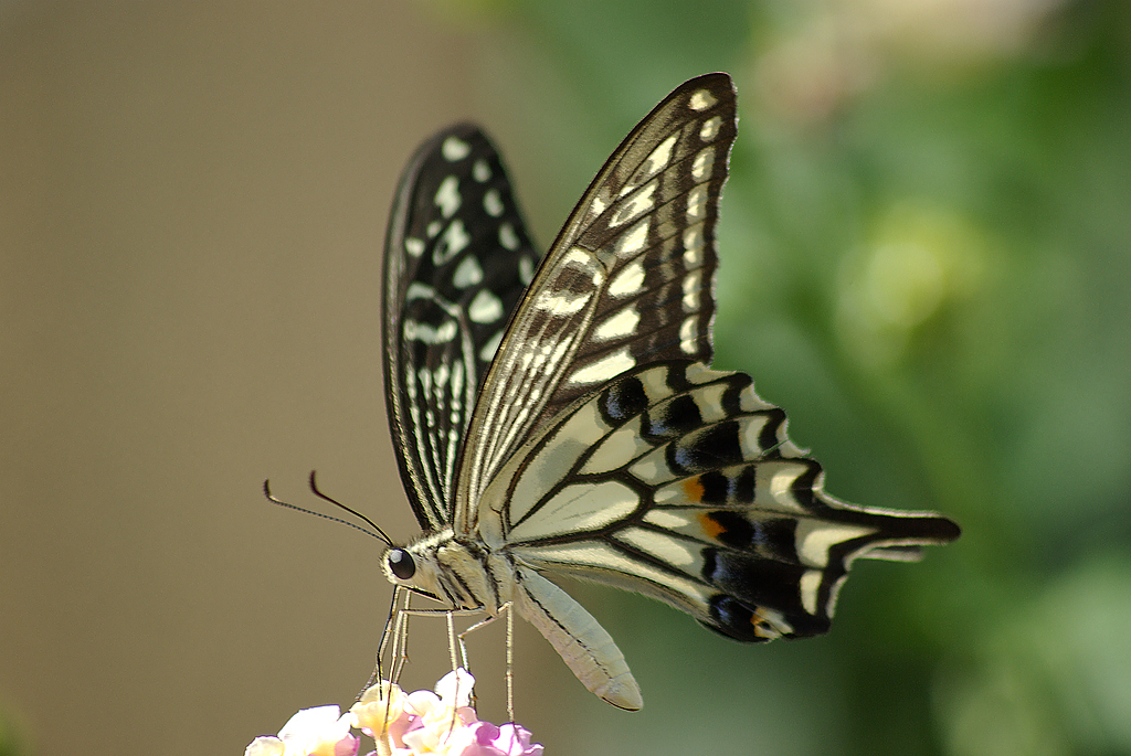 Asian swallowtail